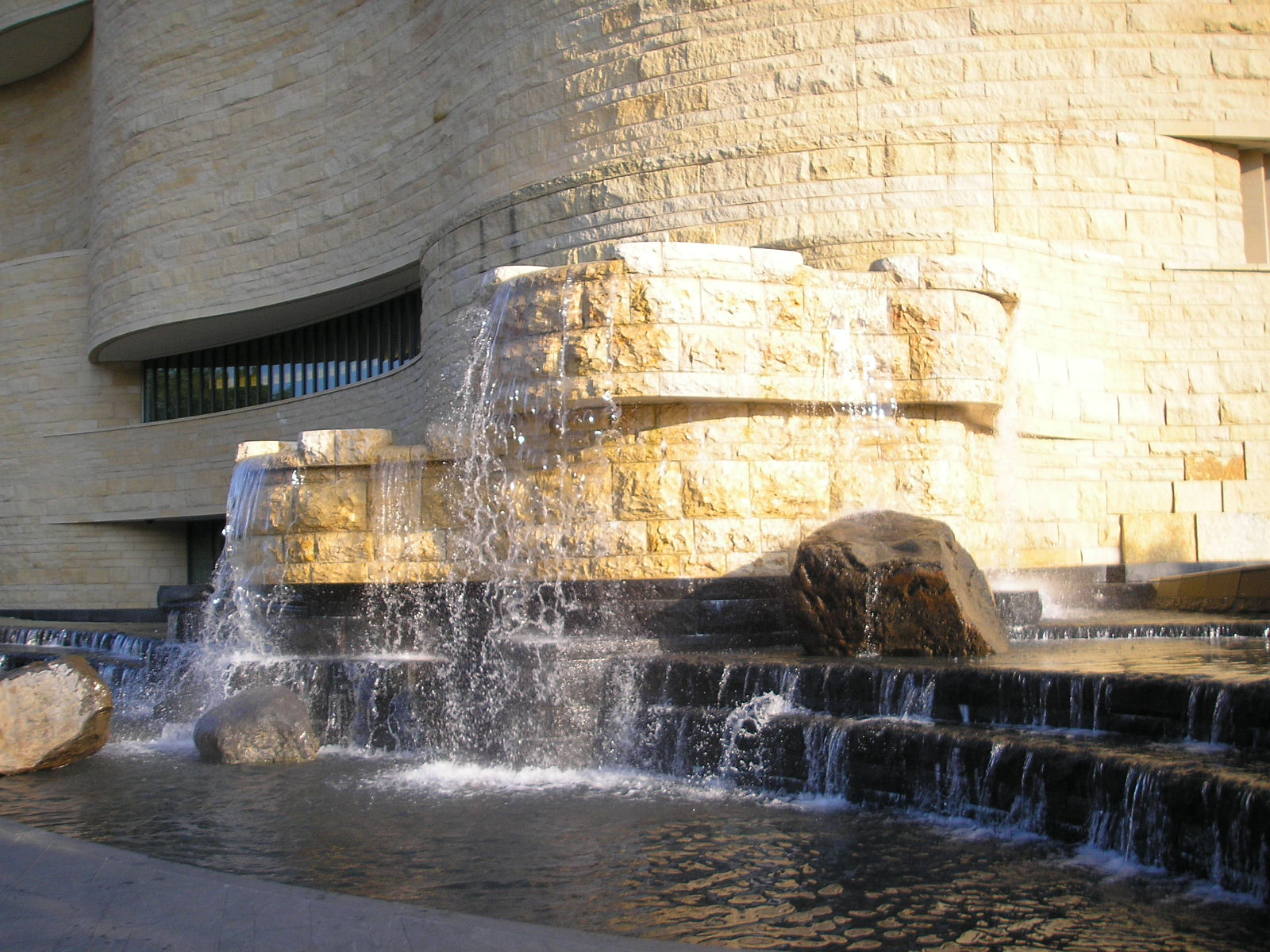 The National Museum of the American Indian in Washington, D.C..